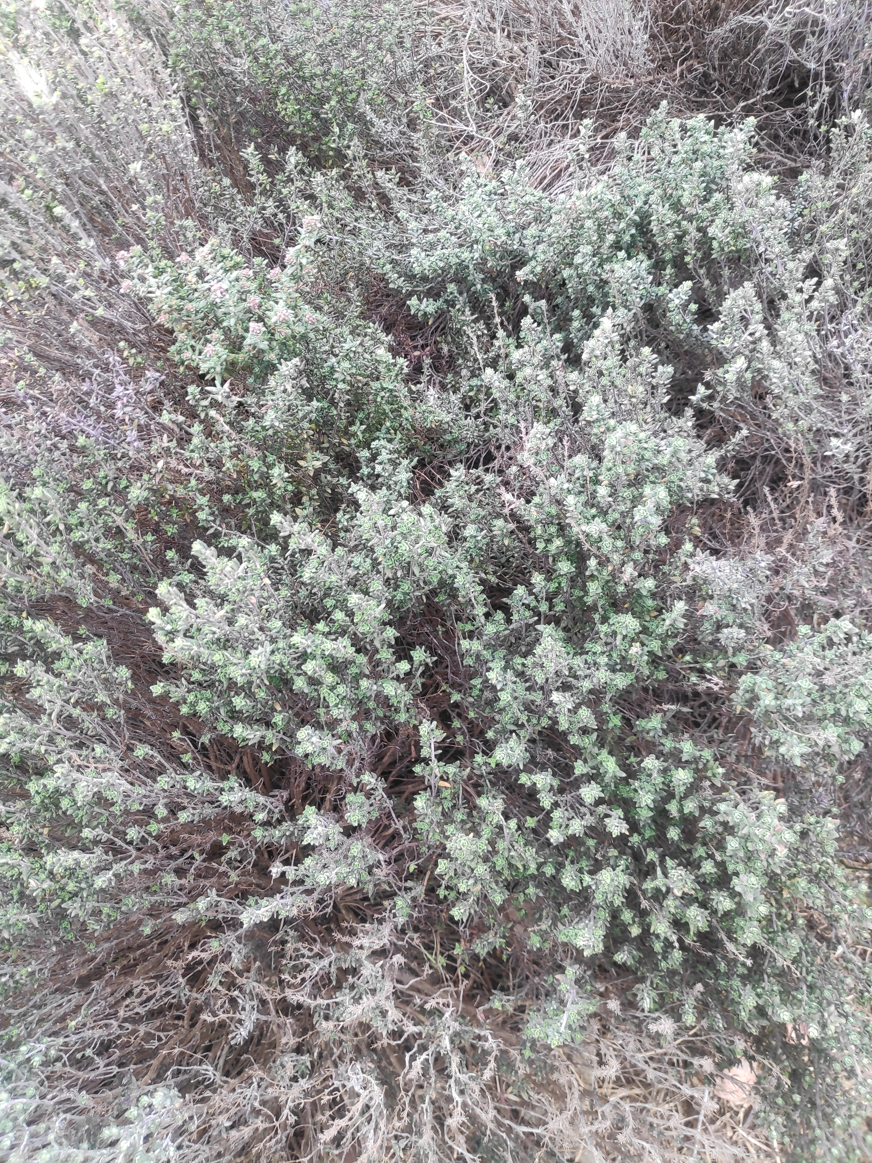 Common thyme